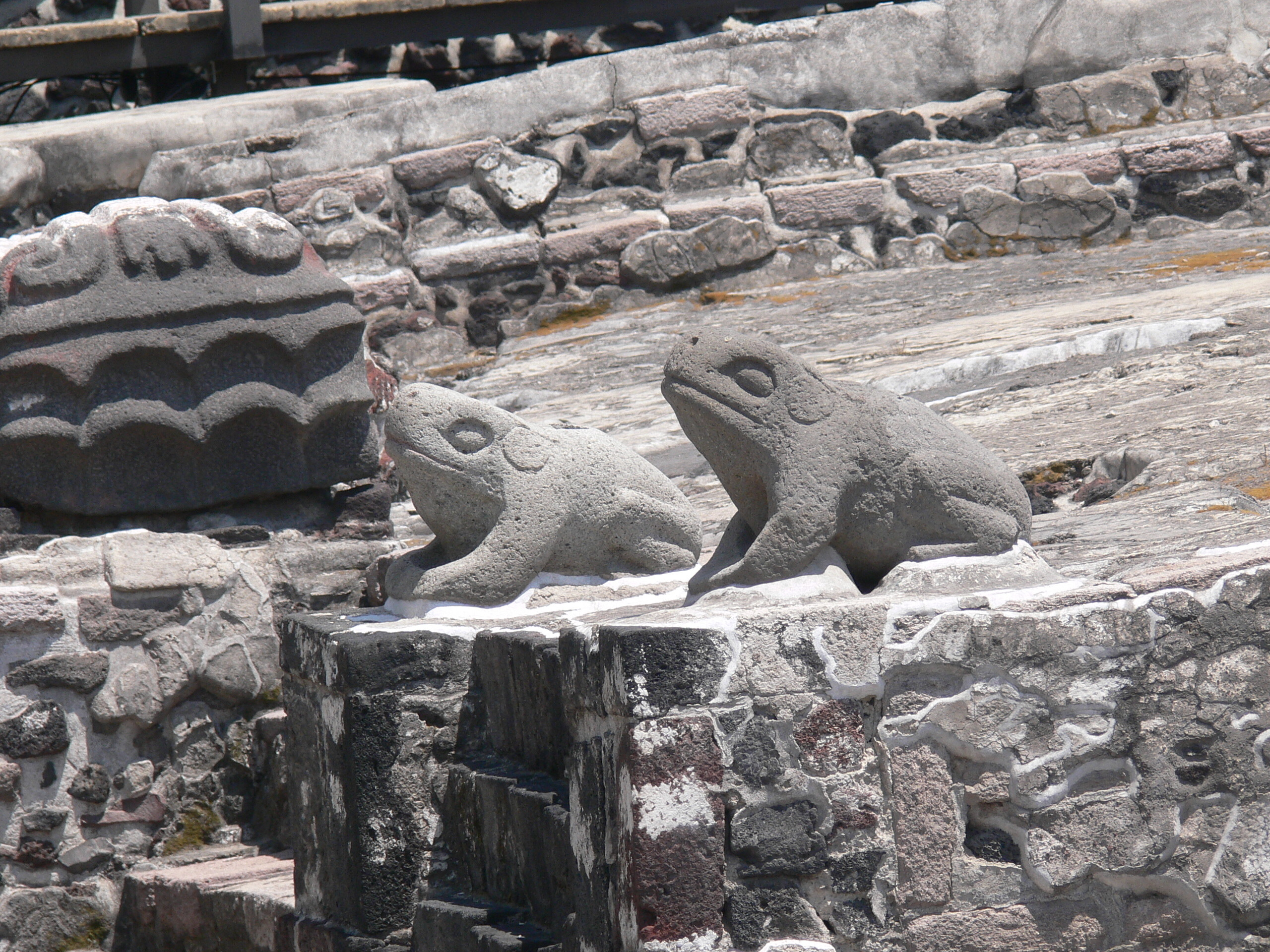 Templo Mayor in Mexico City. Altar of the toads ( 1470 ) as symbols of water.